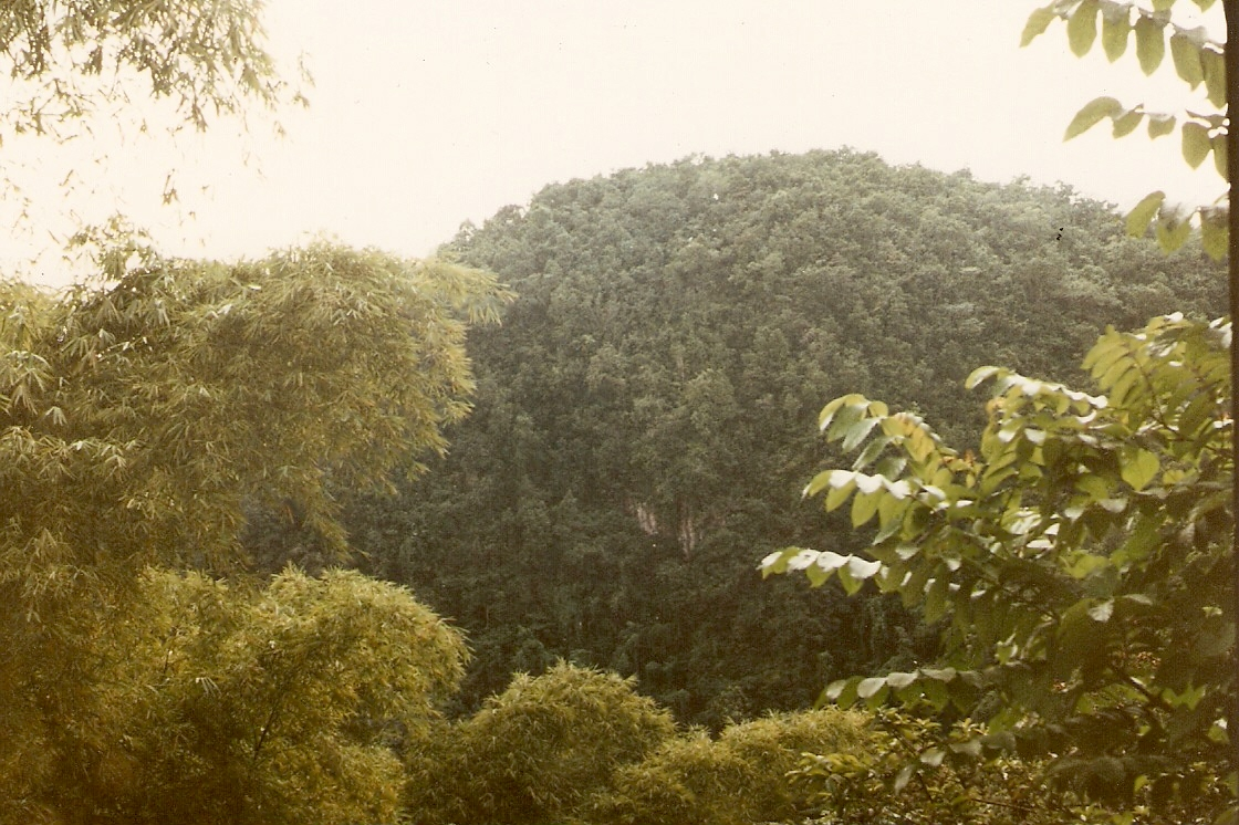 Cockpit Country Jamiaca